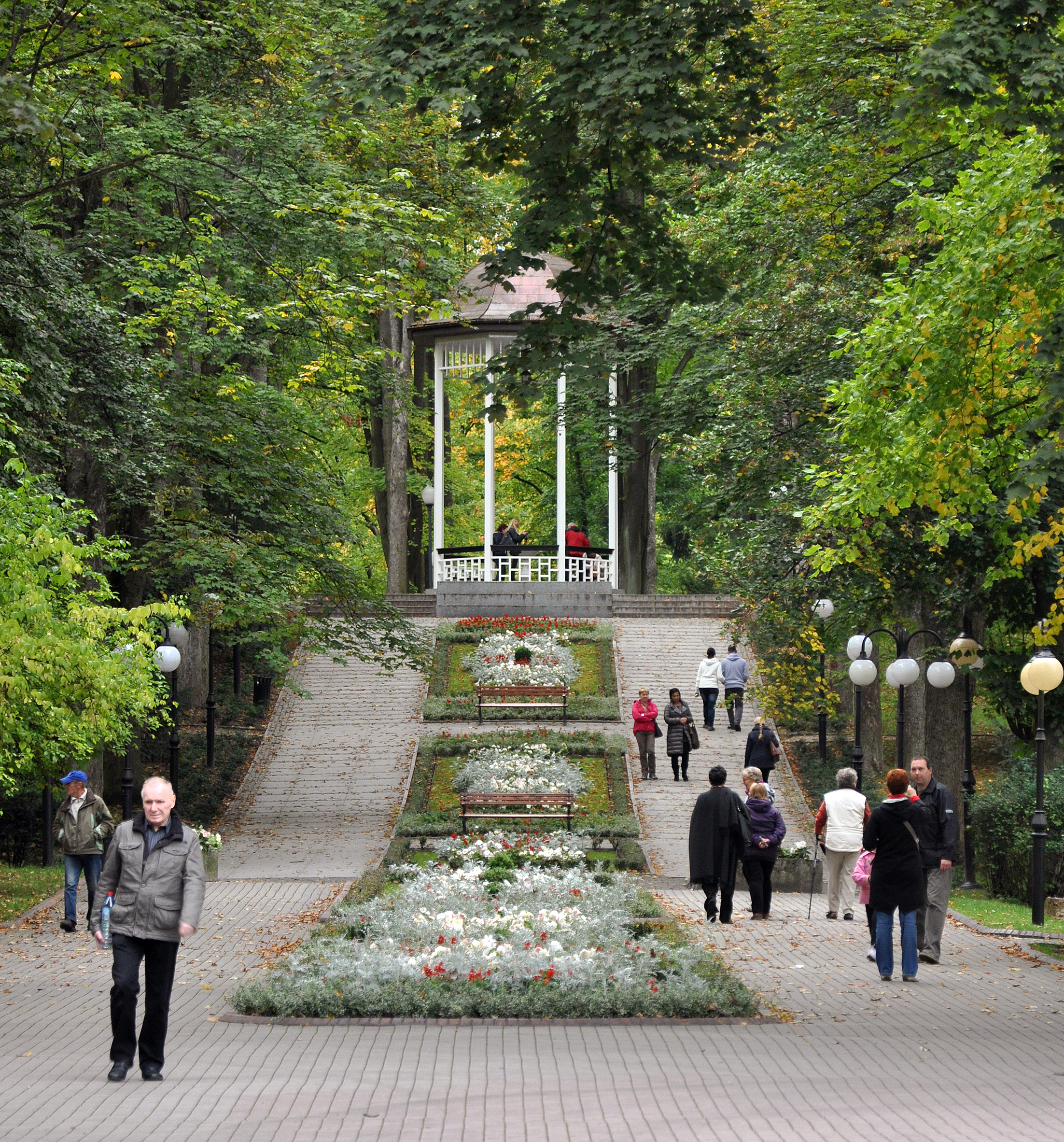 Spa park in Polanica-Zdrój